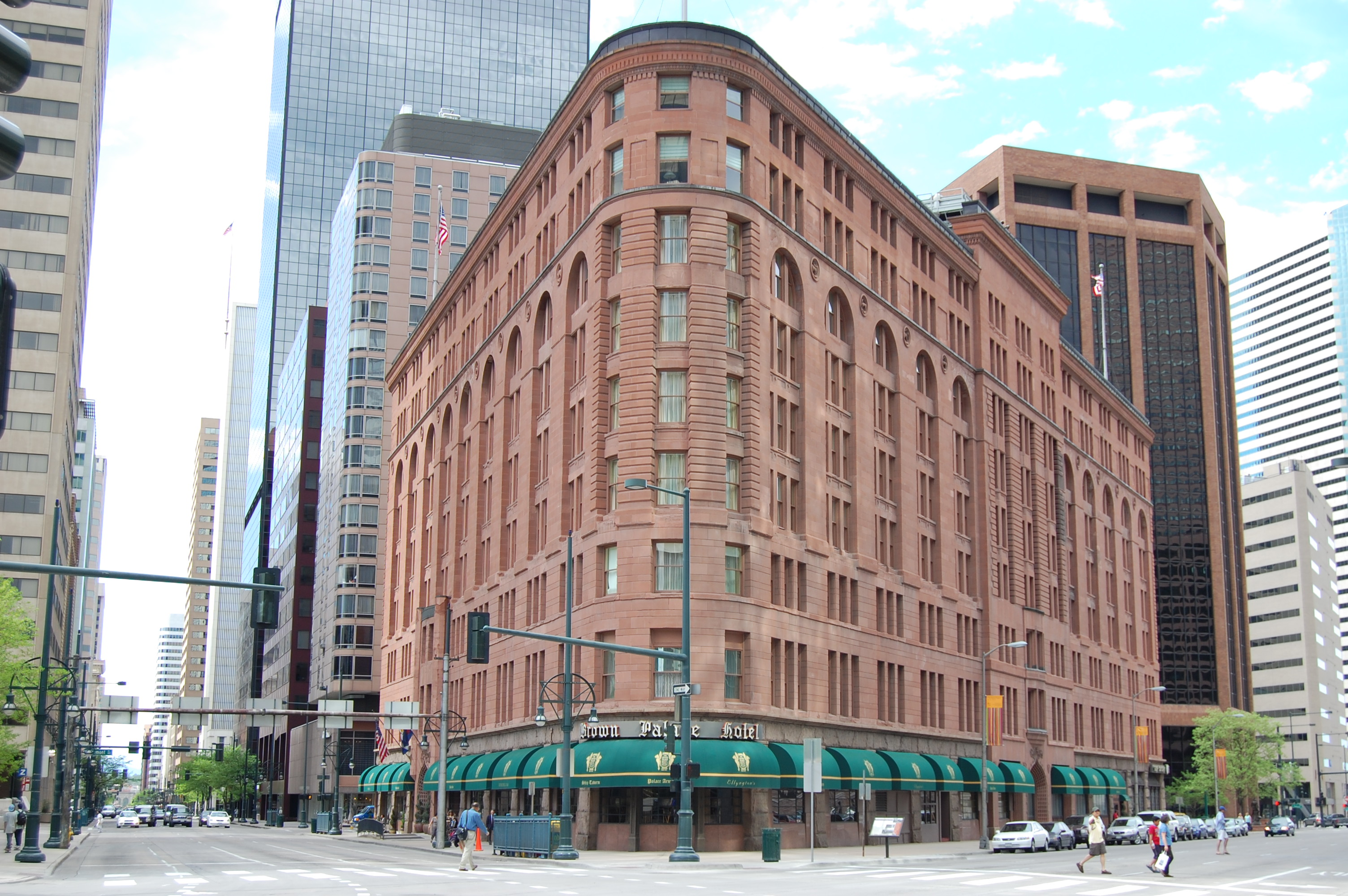 my own shot; release under gfdl